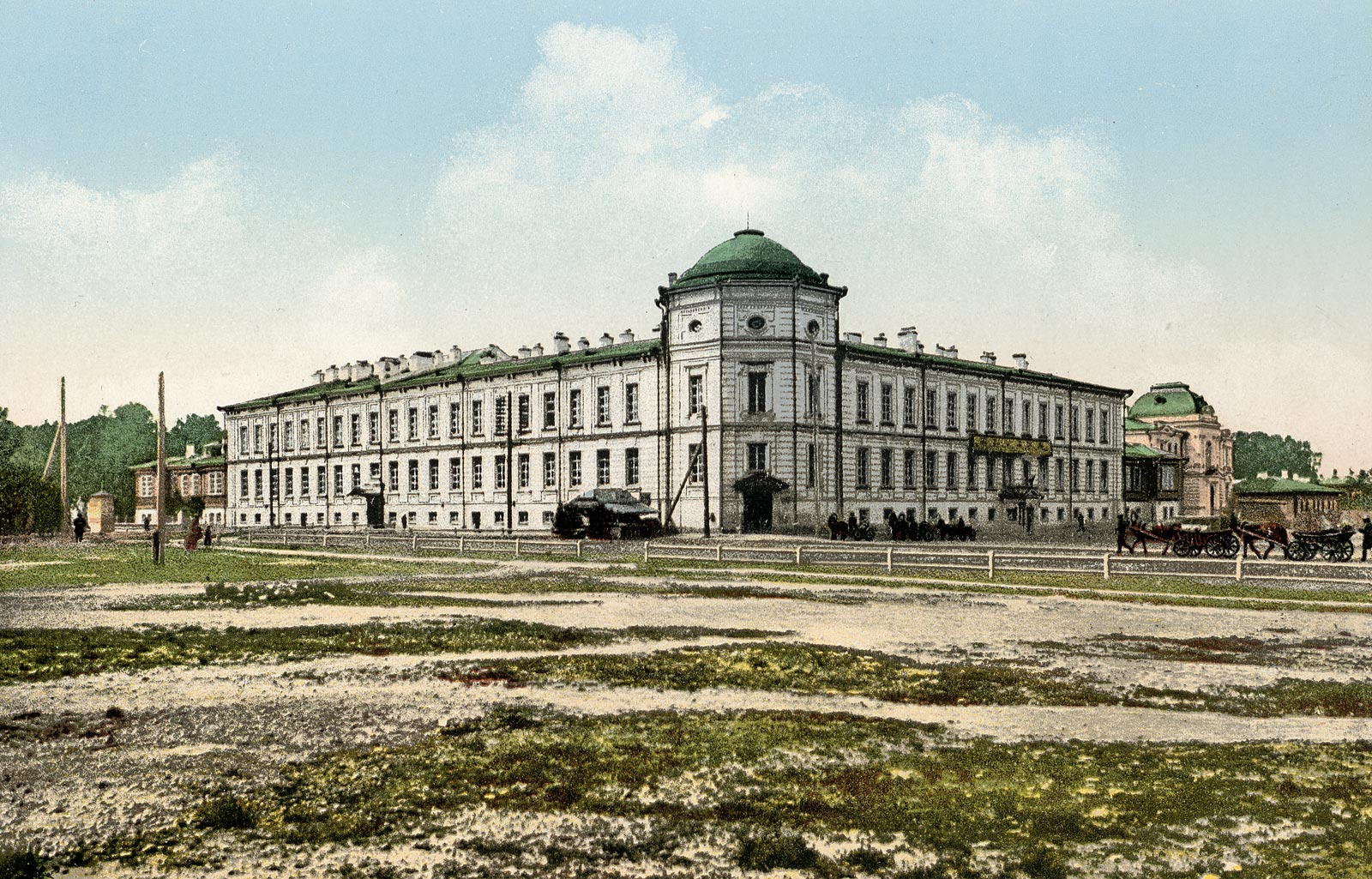 University cliniques in Tomsk, Russia in the early 1900s